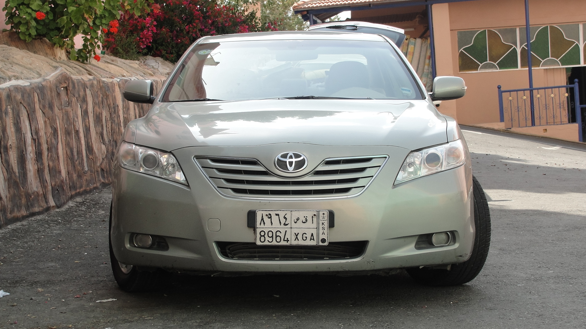 Camry front